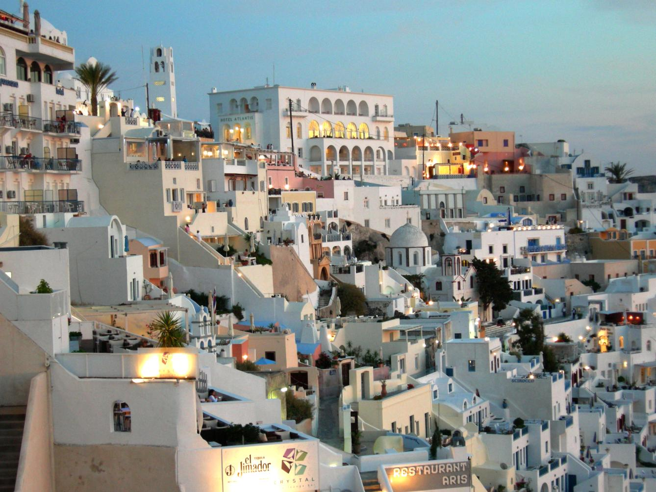 Fira by night